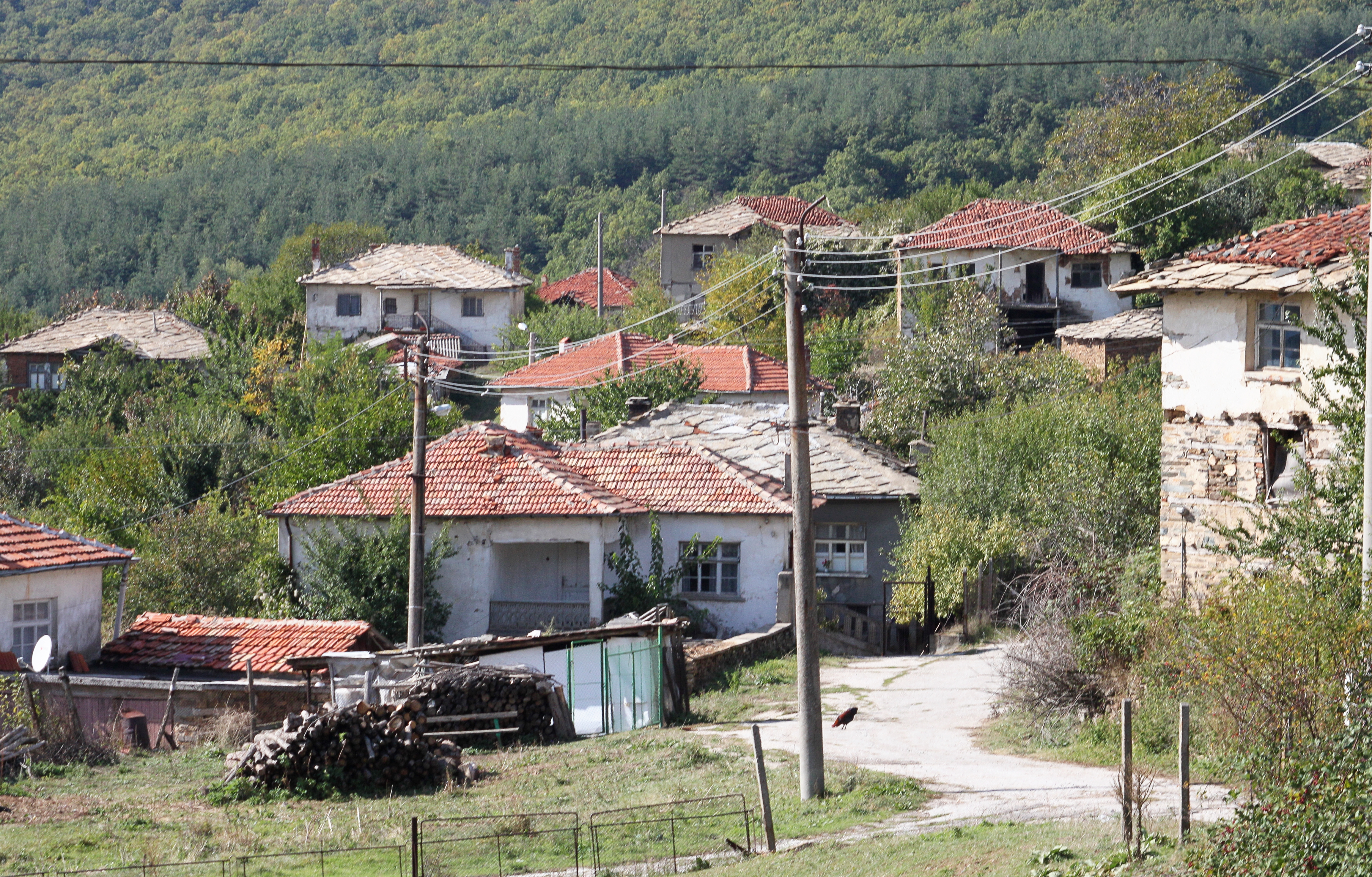 Popsko, a village in the Rhodope Mountains, Bulgaria